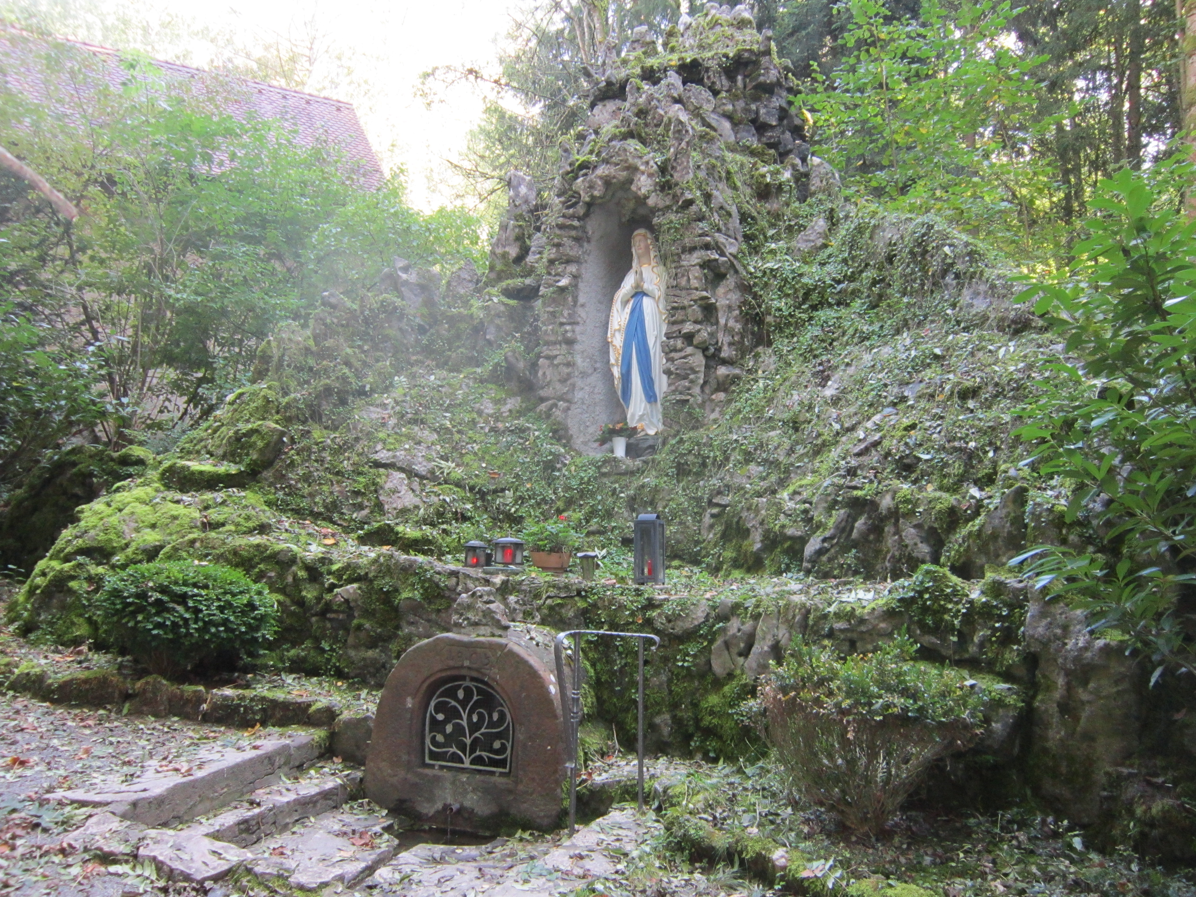 Lourdes Grotto at the "Terzenbrunn" Chapel in Arnshausen, a quarter of the German spa town of Bad Kissingen in Lower Franconia (Bavaria).